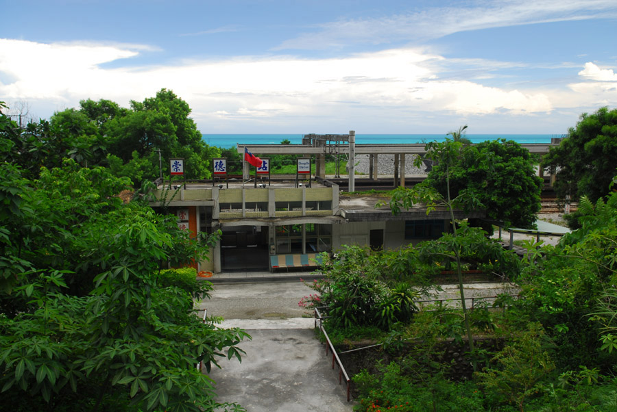 Chongde Station is a local train station of North-Link Line, part of Taiwan's eastern rail line. It is located within the boundary of SiouLin Township, HuaLien County.